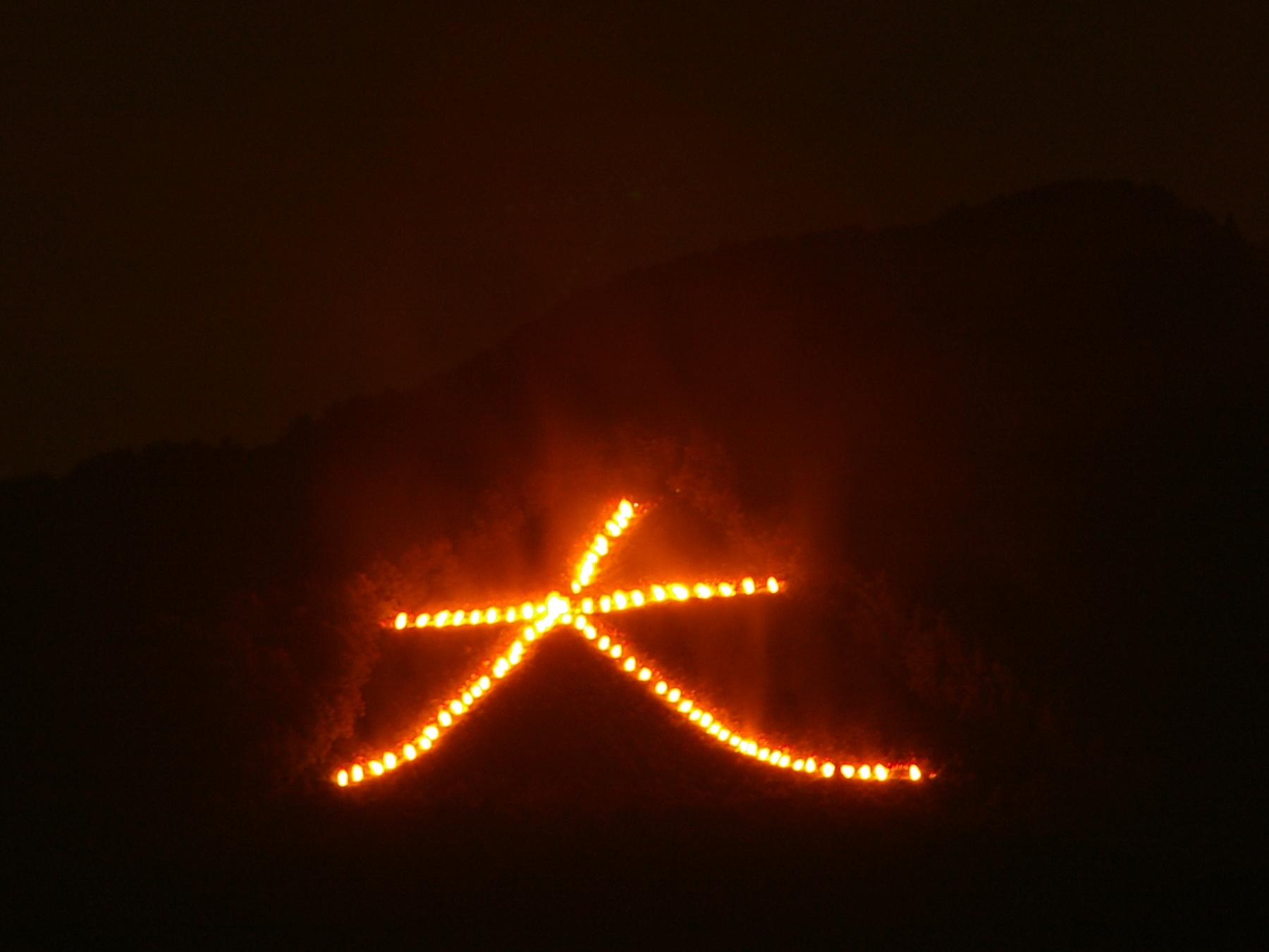 Gozan-no-okuribi Daimonji (Letter 大) Kyoto, Japan. Photo taken at Funaokayama Park, Kita-ward, Kyoto.